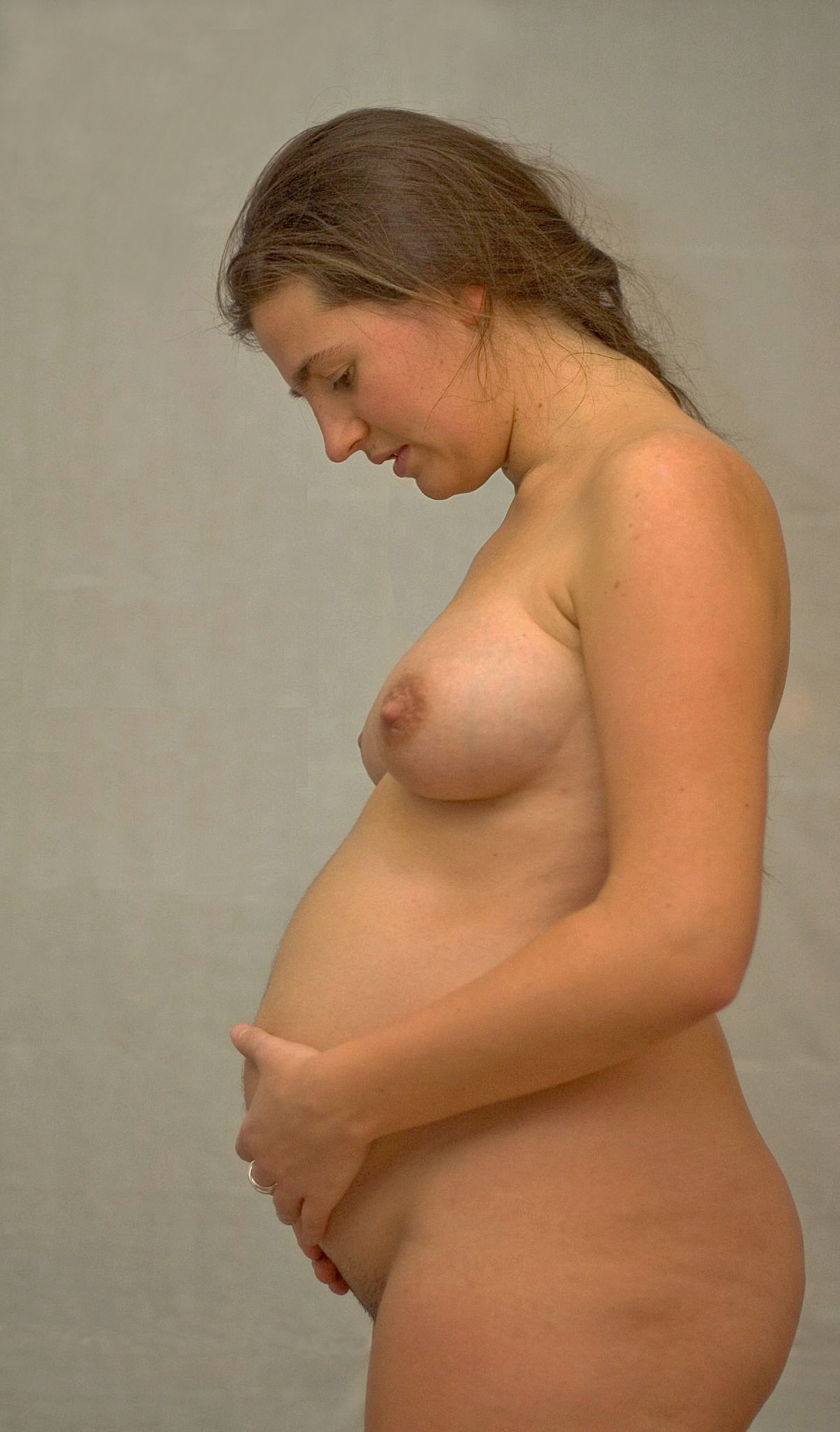 Pregnancy in the 26th week.